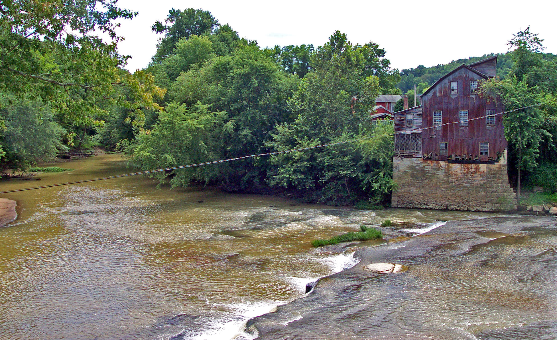 Water side of the Davis Mill, located along Raccoon Creek on Cora Mill Road in Perry Township, Gallia County, Ohio, United States. Built in 1845, it is listed on the National Register of Historic Places.